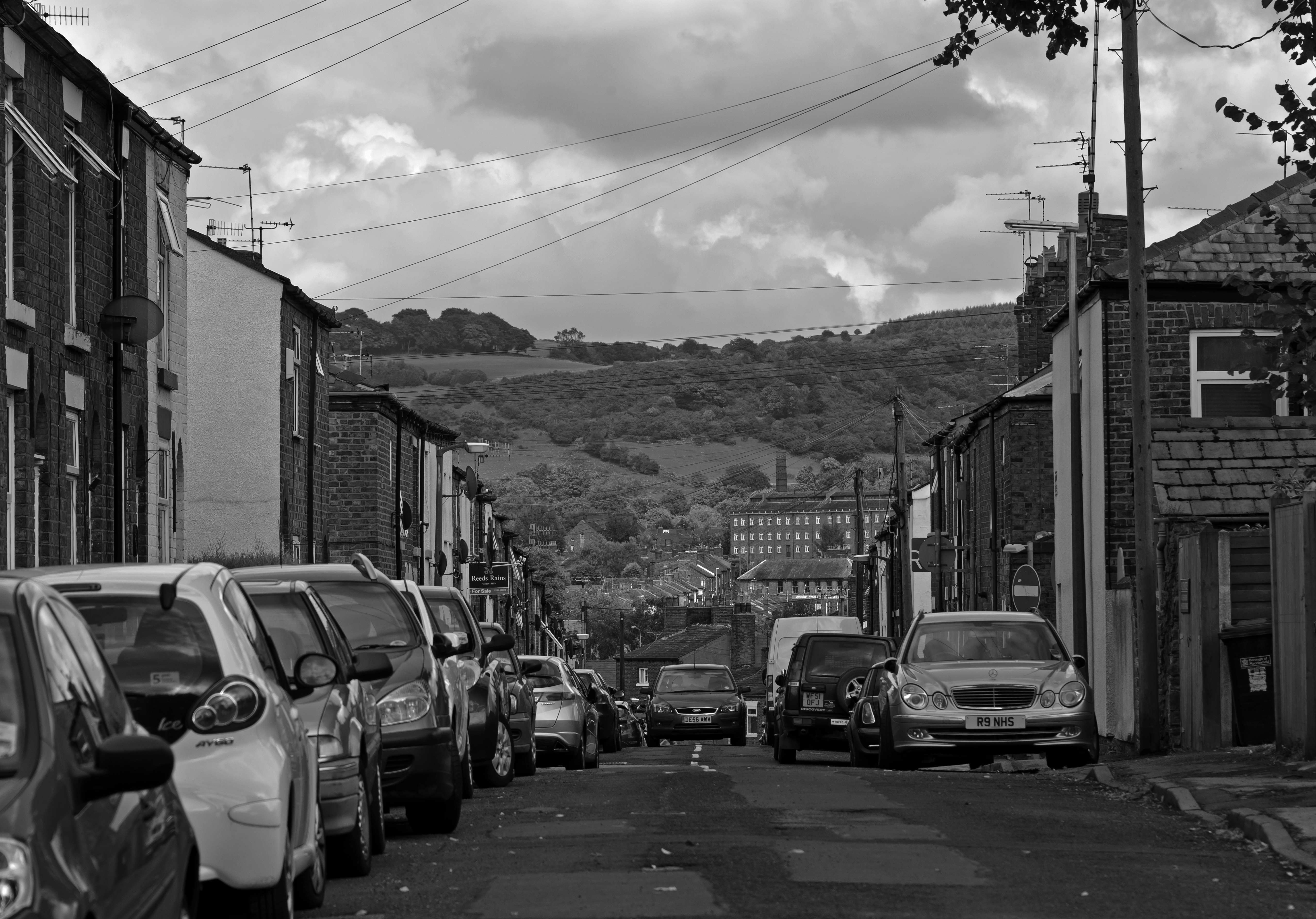 A view down Barton Street, Macclesfield, looking east from near the home of the late Joy Division lead singer Ian Curtis. This image is derived from the similar color image, then converted to grayscale as Anton Corbijn did for his 2007 Curtis biopic Control.